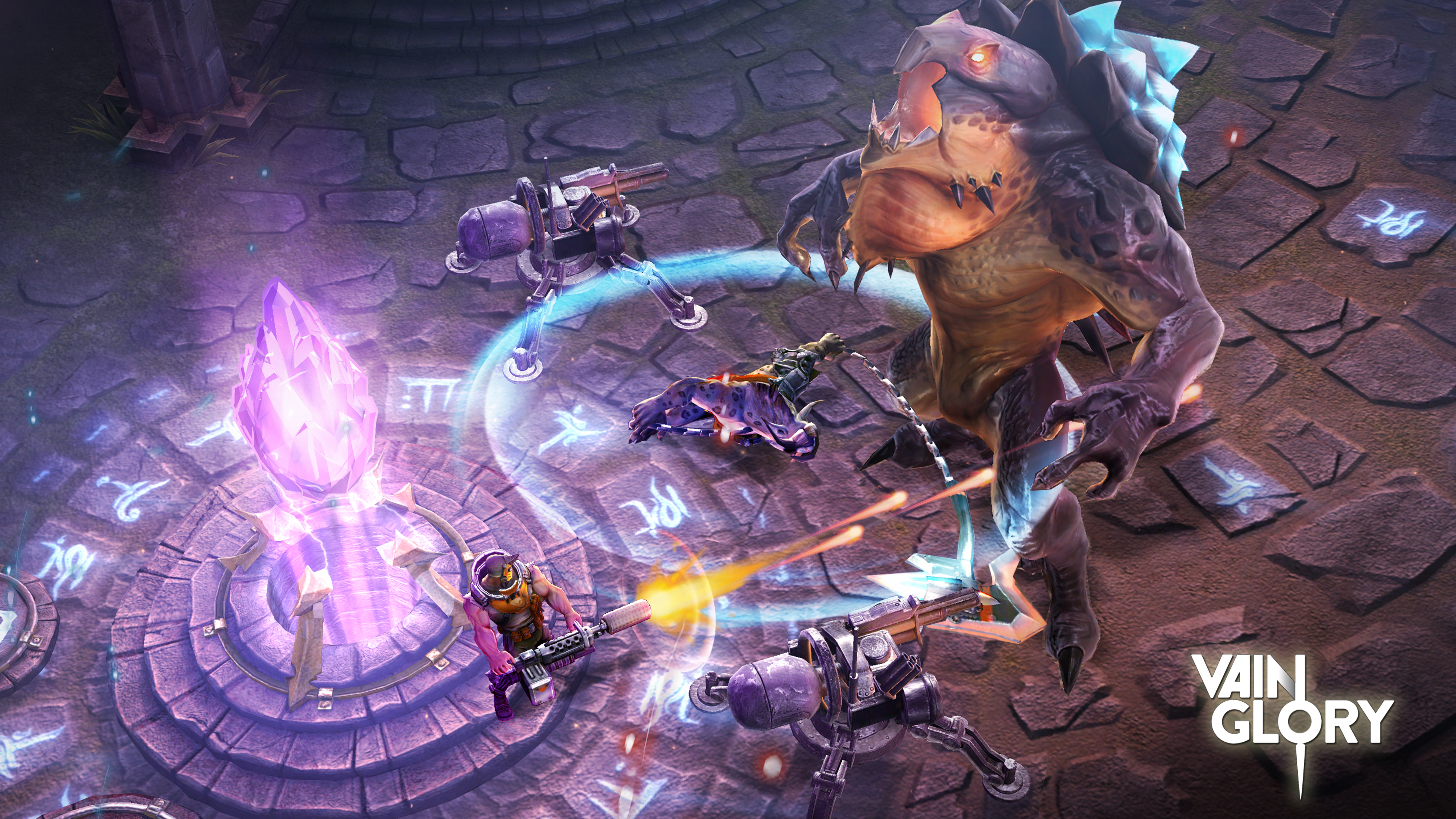 Vainglory screenshot